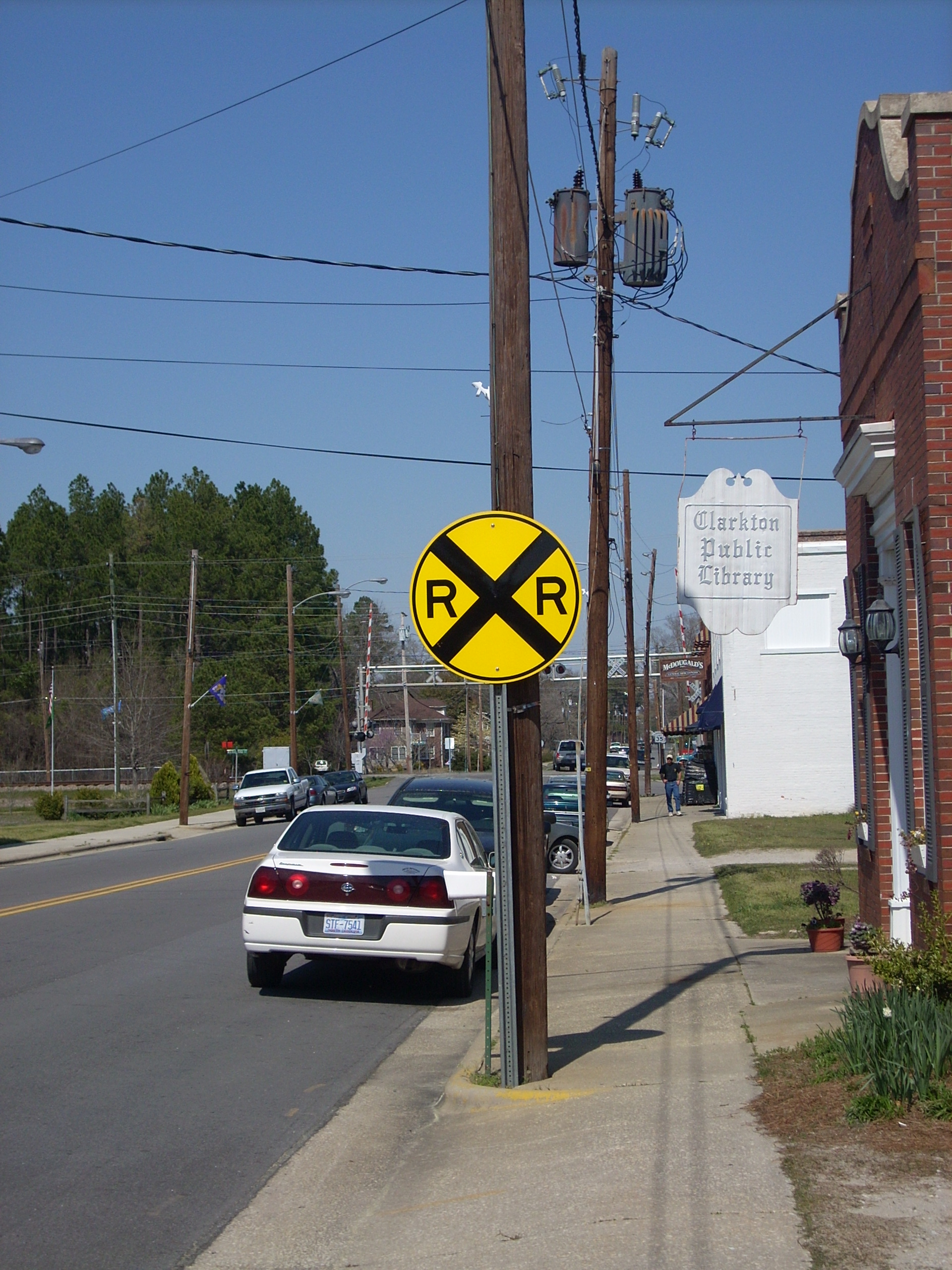 A view of U.S. Route Business 701 in Clarkton